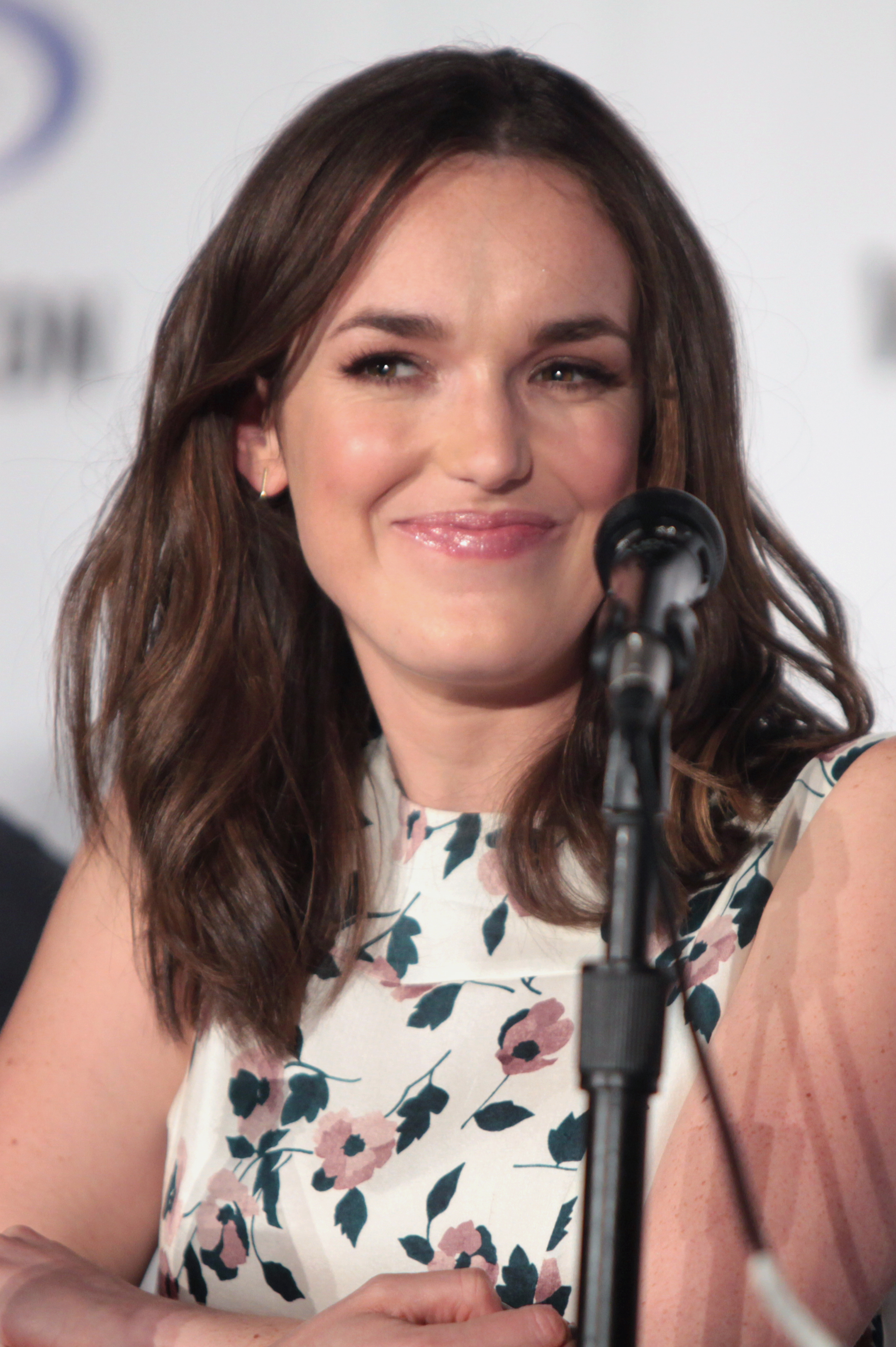 Elizabeth Henstridge speaking at the 2016 WonderCon in Los Angeles, California.